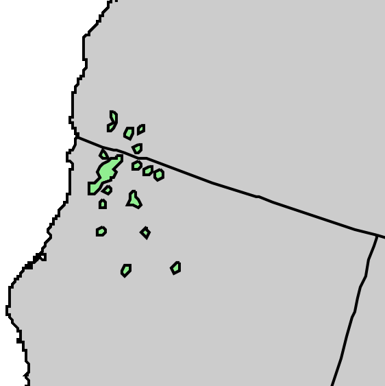 Natural distribution map for Picea breweriana (Brewer spruce)